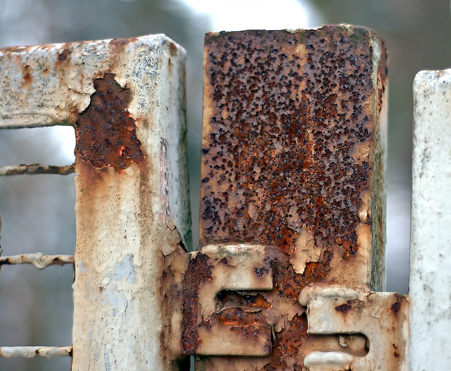 This image shows a rusty fence.